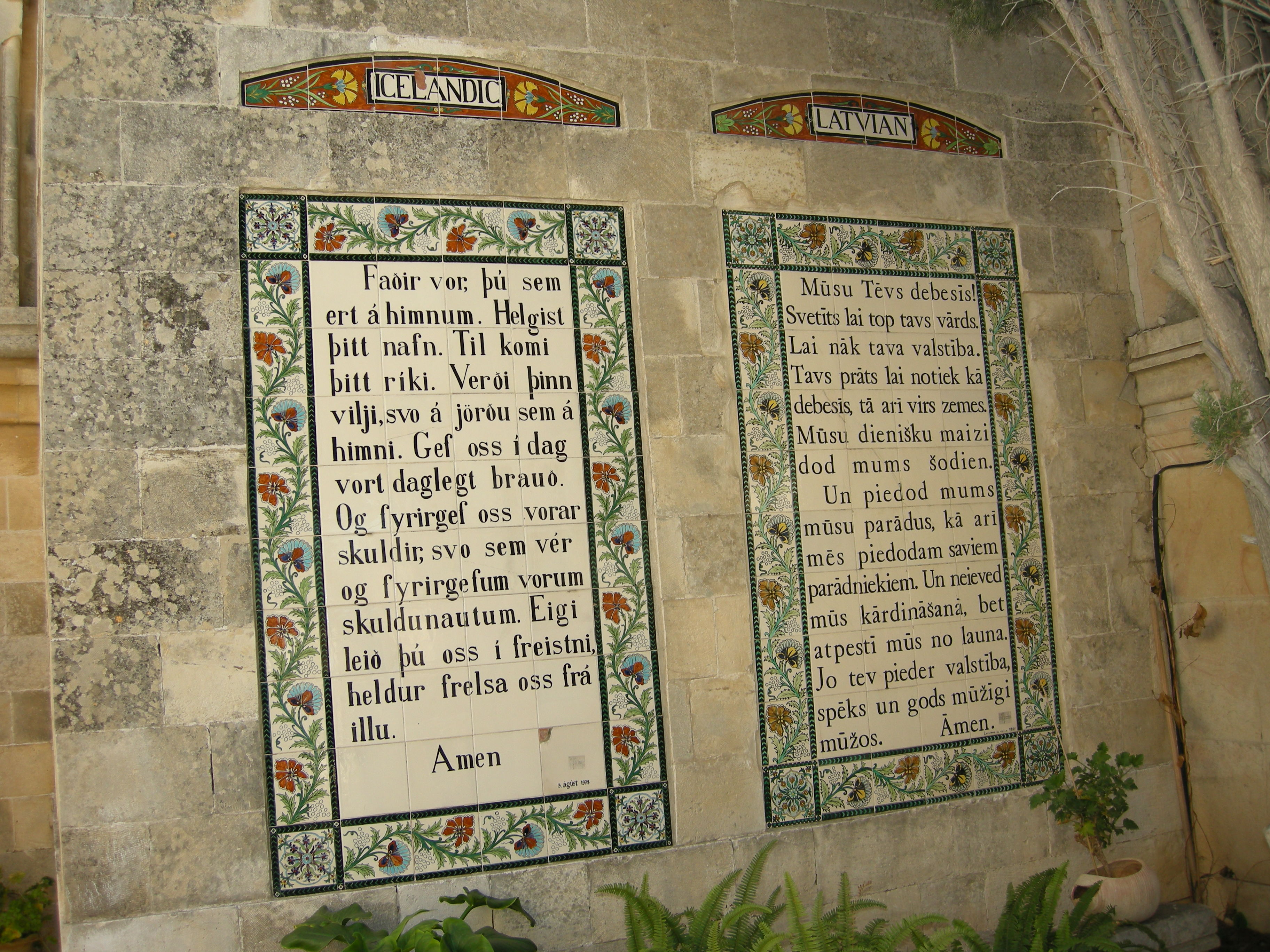 Church of the Pater Noster (Jerusalem).